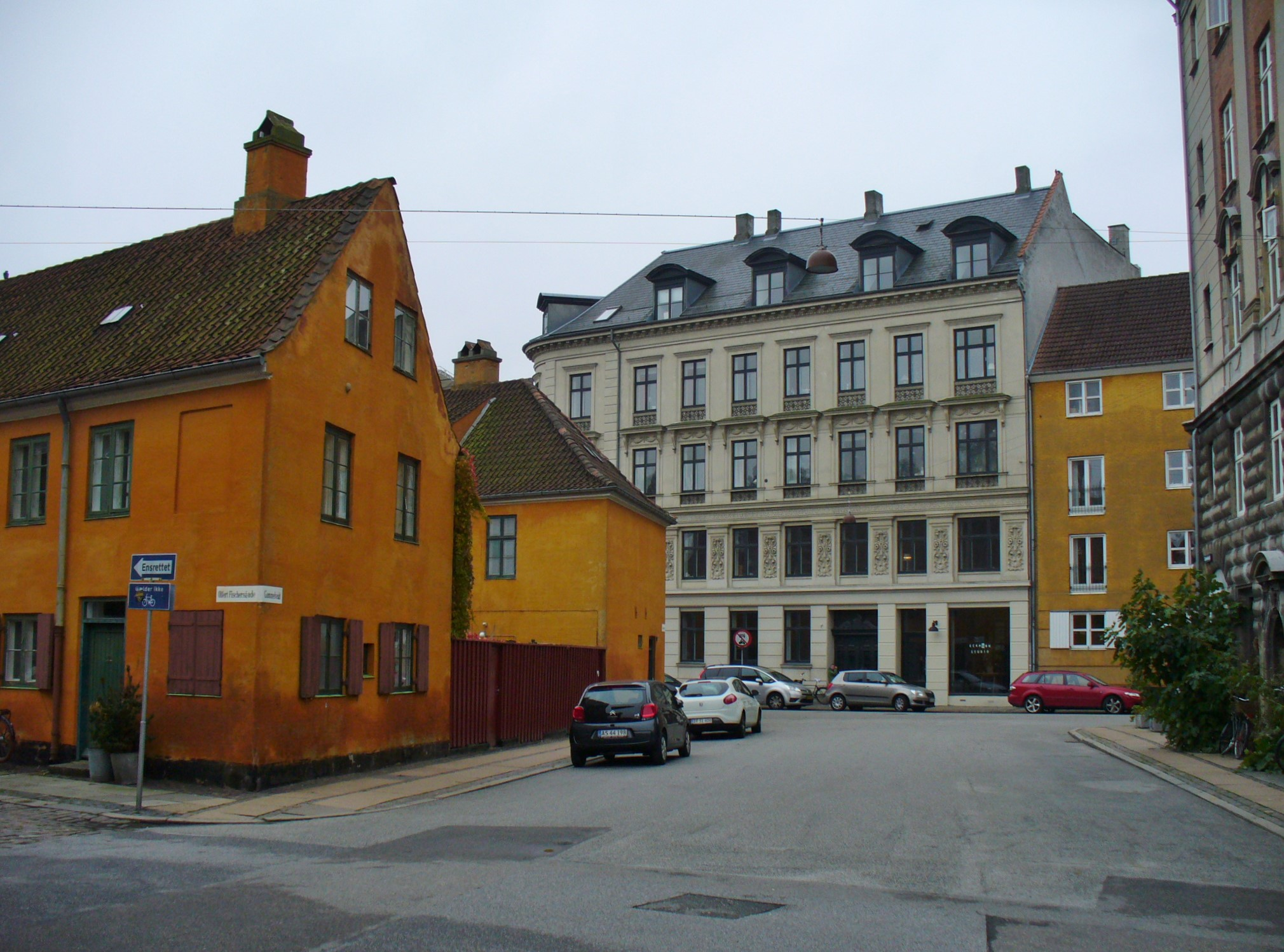 The street Gammelvagt at Olfert Fischers Gade in the area Nyboder in Copenhagen.